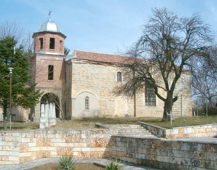 The church in village Goritsa, Popovo Municipliaty, Targovishte district, Bulgaria